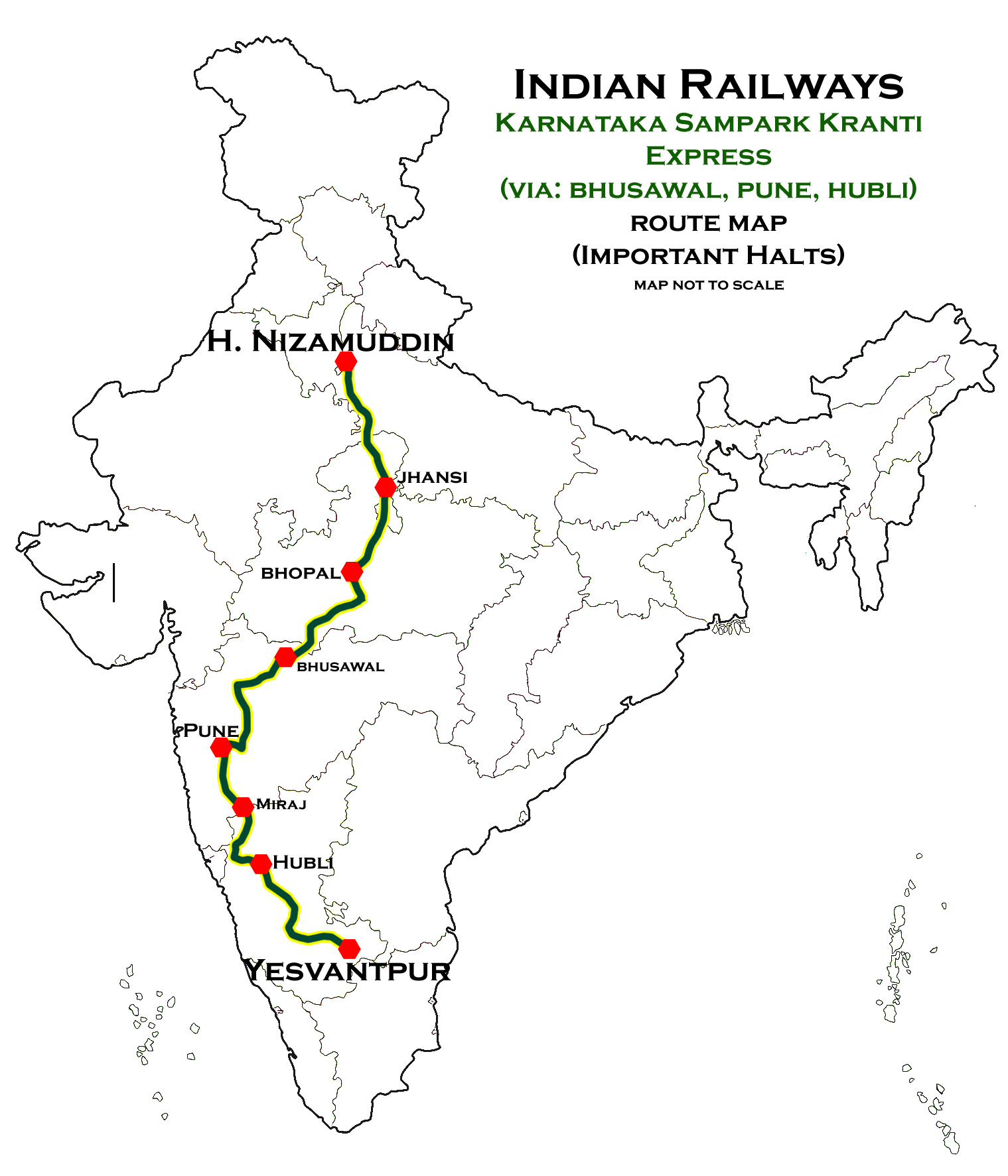 (NZM - YPR) Karnataka Samparkkranti Express (via Hubli) Route map